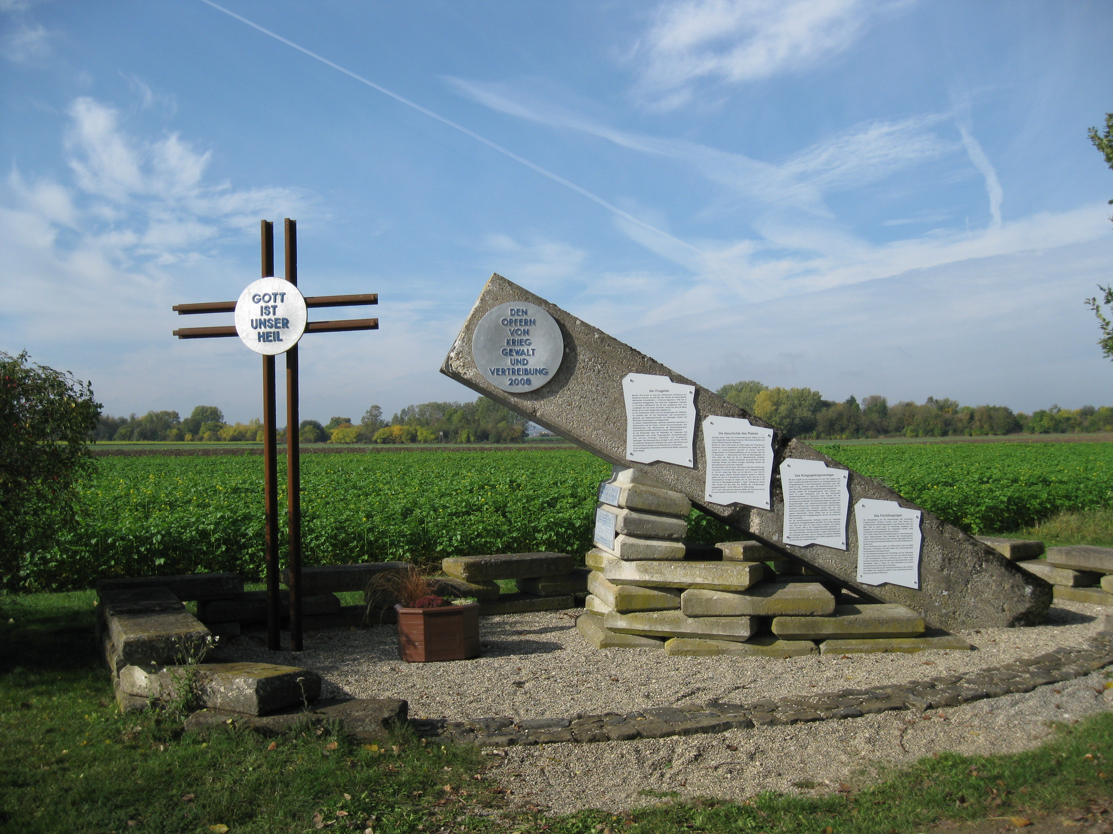 Memorial for Flugplatz Heuberg, near Maihingen, Germany